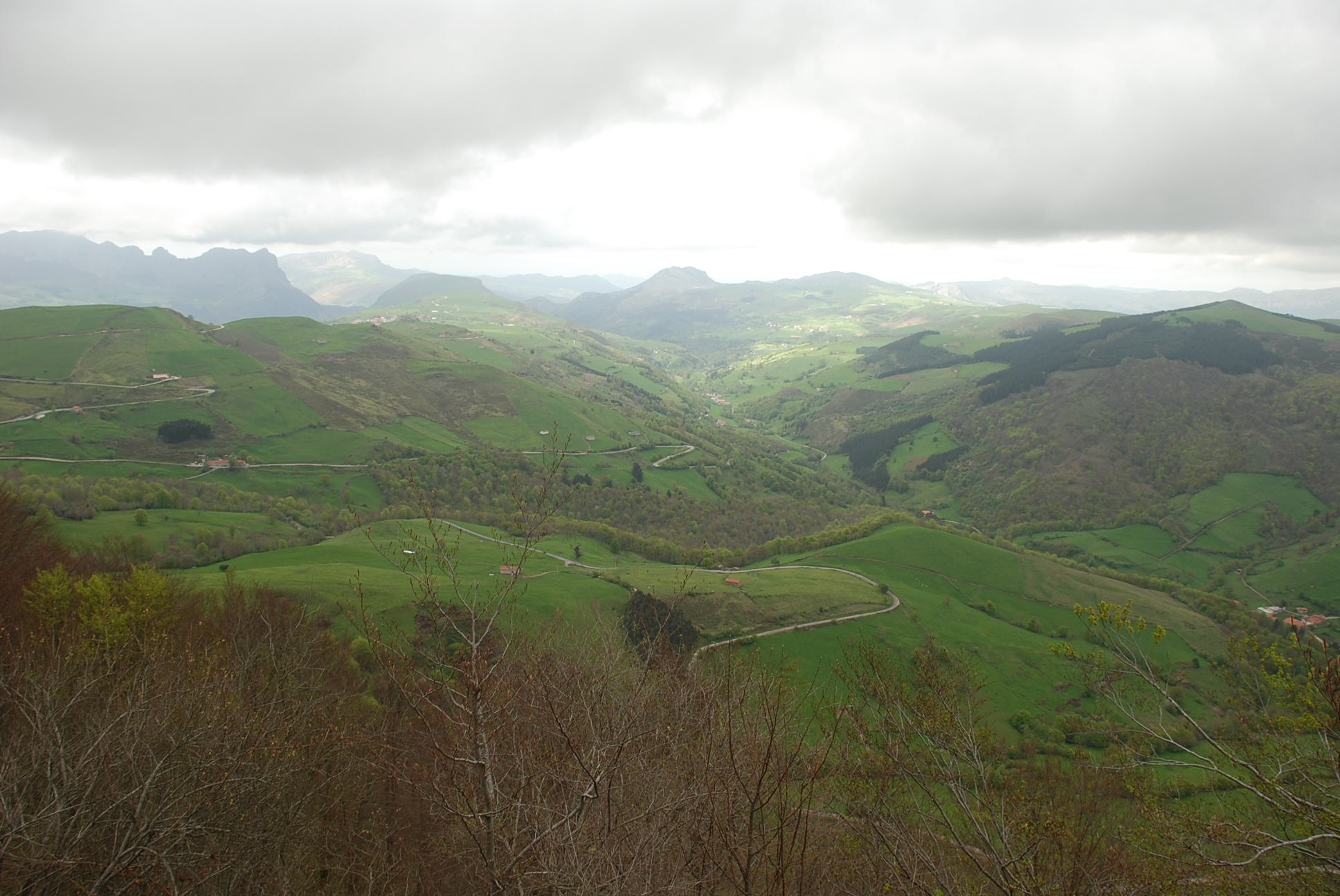 View of the Valley of Lanestosa, from the port of the Tornos.